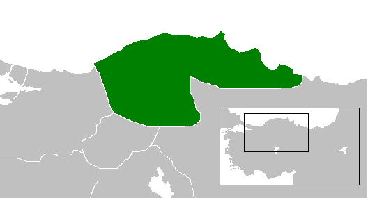 Candaroglu Map